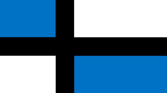 The Flag of Terra Mariana